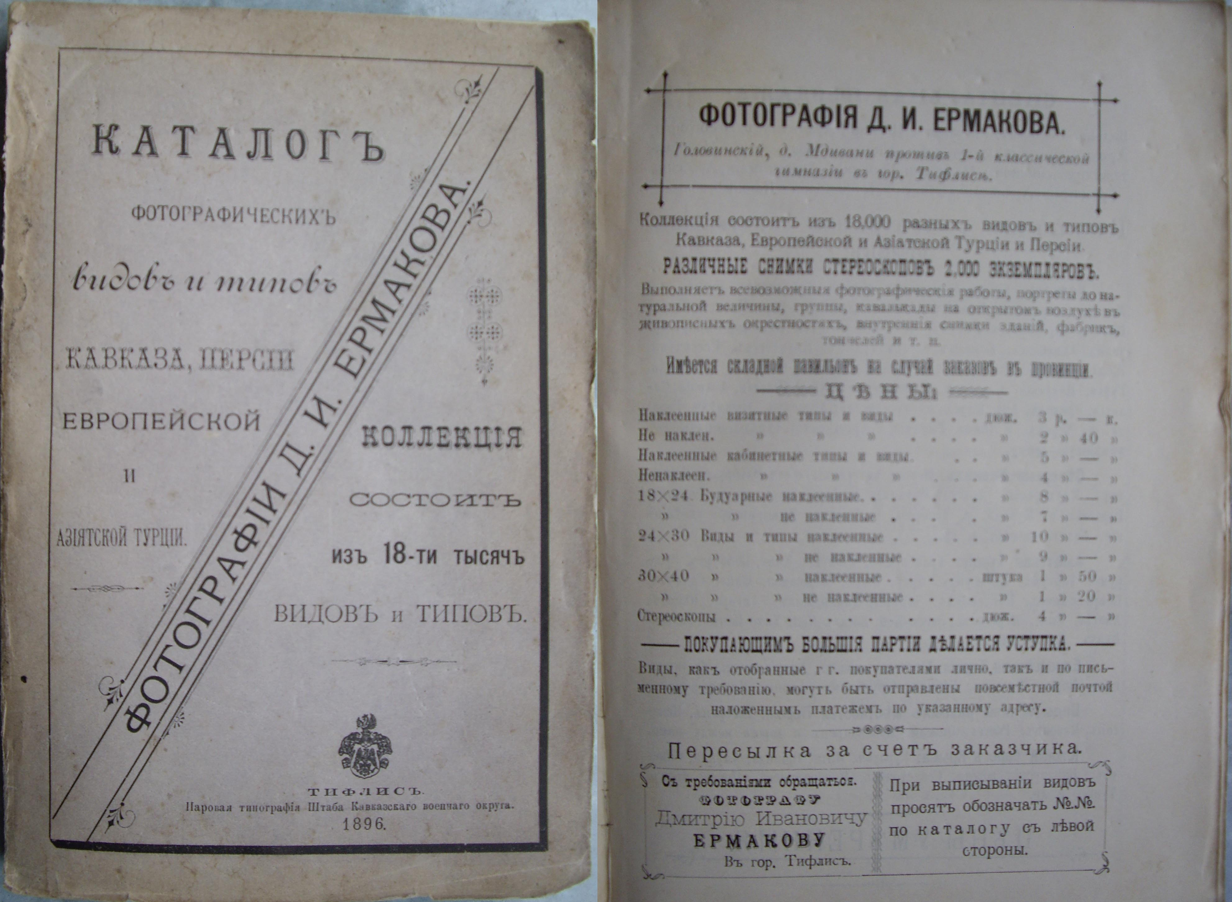 1-st Cataloge of Dmitry Ermakov phtostream